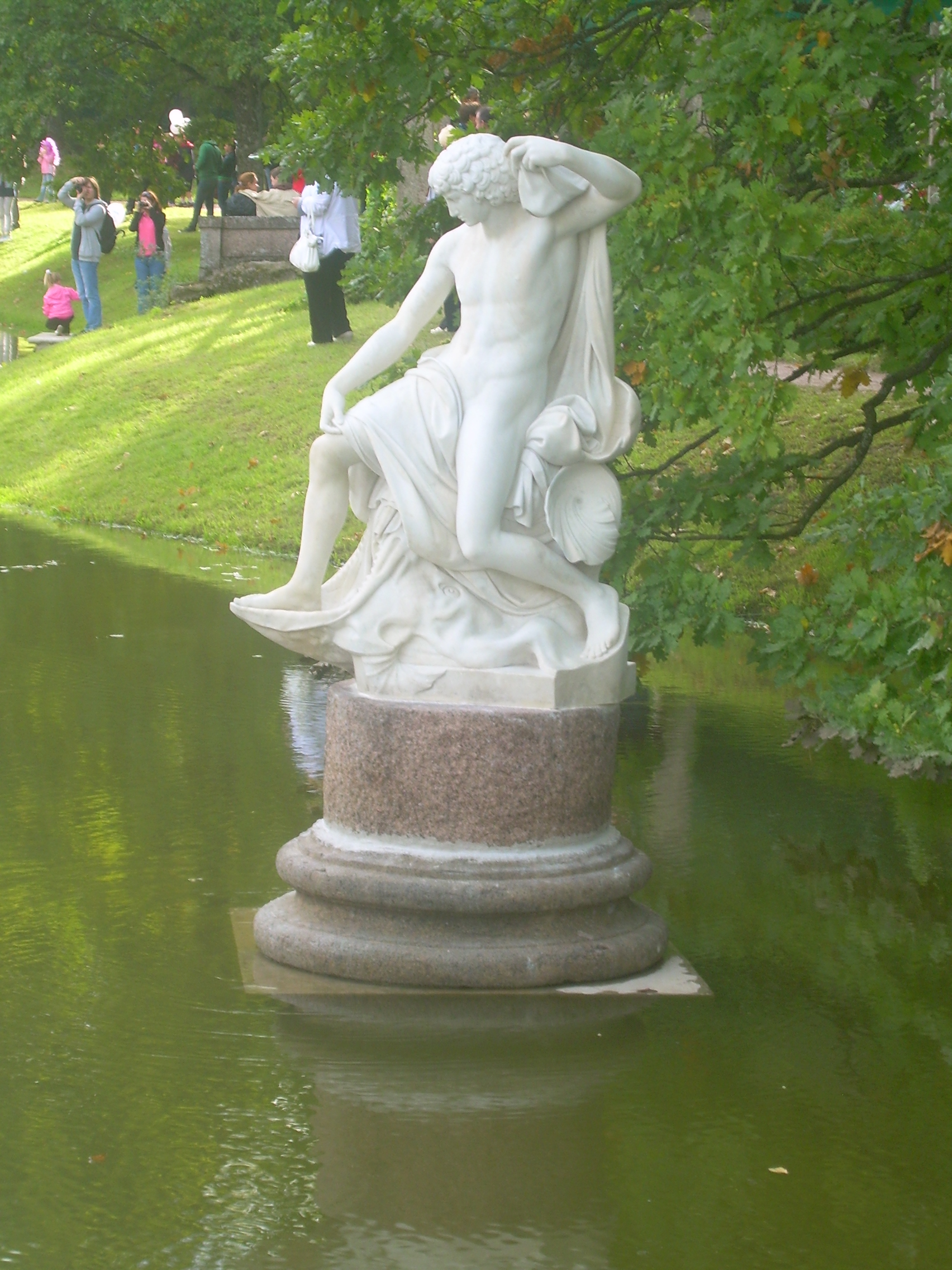 Jonah Statue (XVIII century)